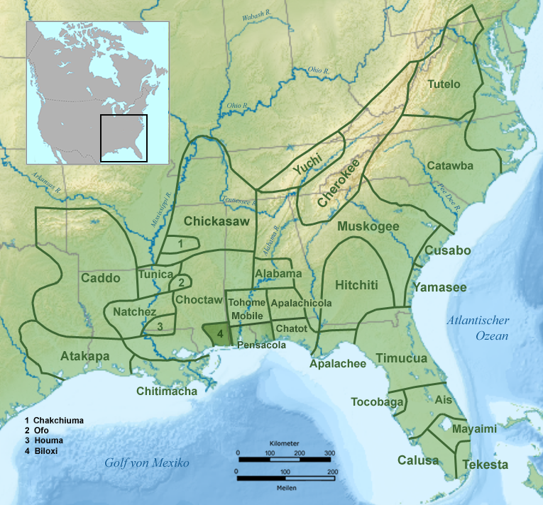 Tribal territory of Biloxi during sixteenth century